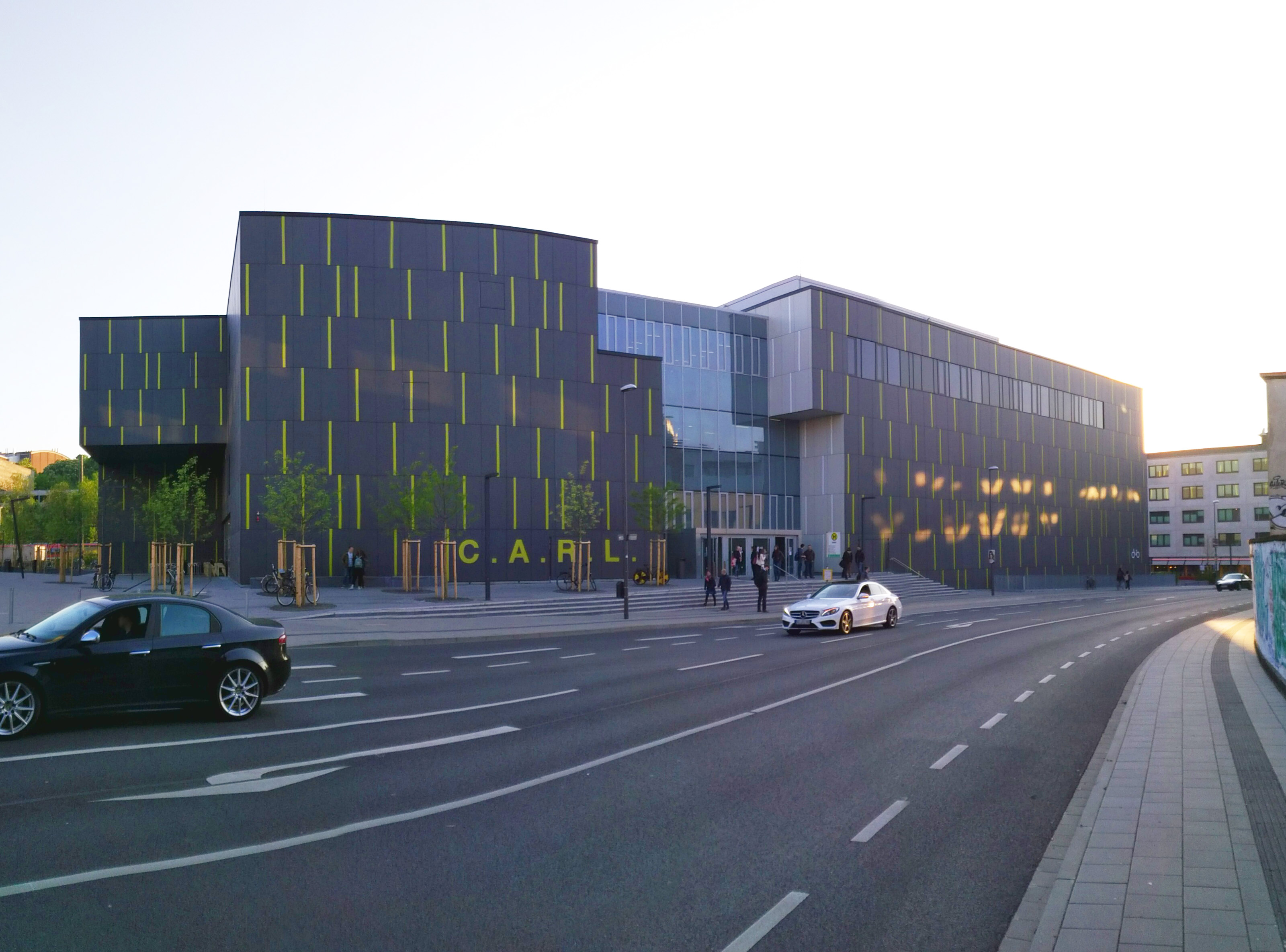 The newly built CARL in 2017, at the RWTH Aachen University